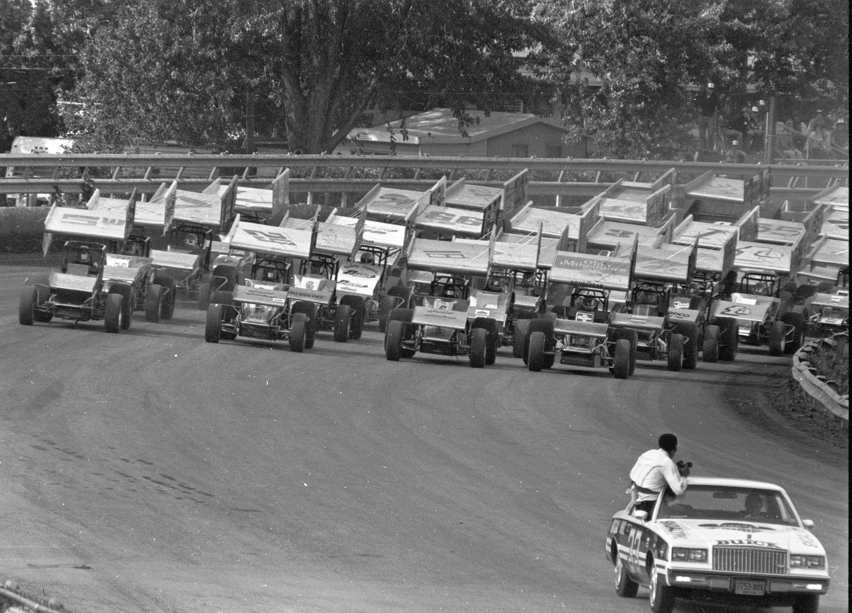 Sprint Cars in a 4 wide salute to the fans at the Syracuse Mile in 1983.